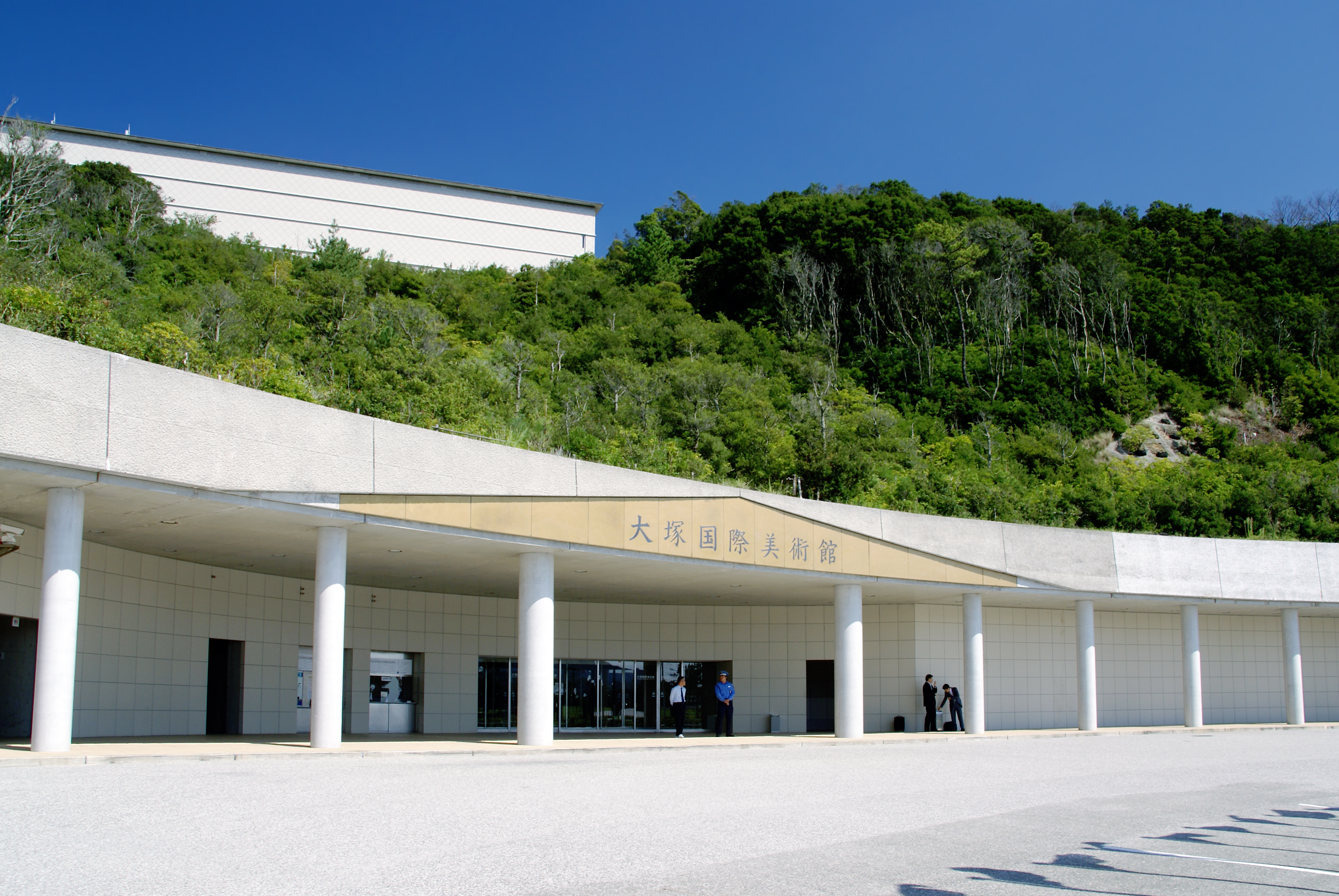 Ōtsuka Museum of Art in Naruto, Tokushima prefecture, Japan.